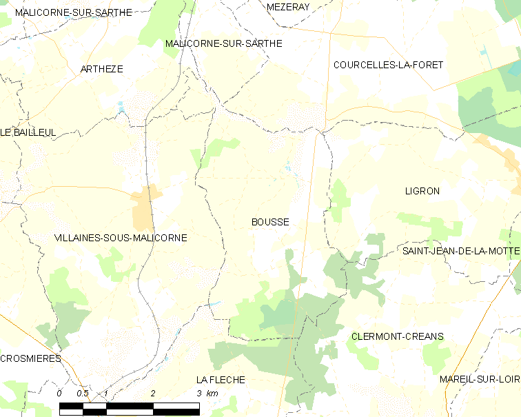 Map of French municipality